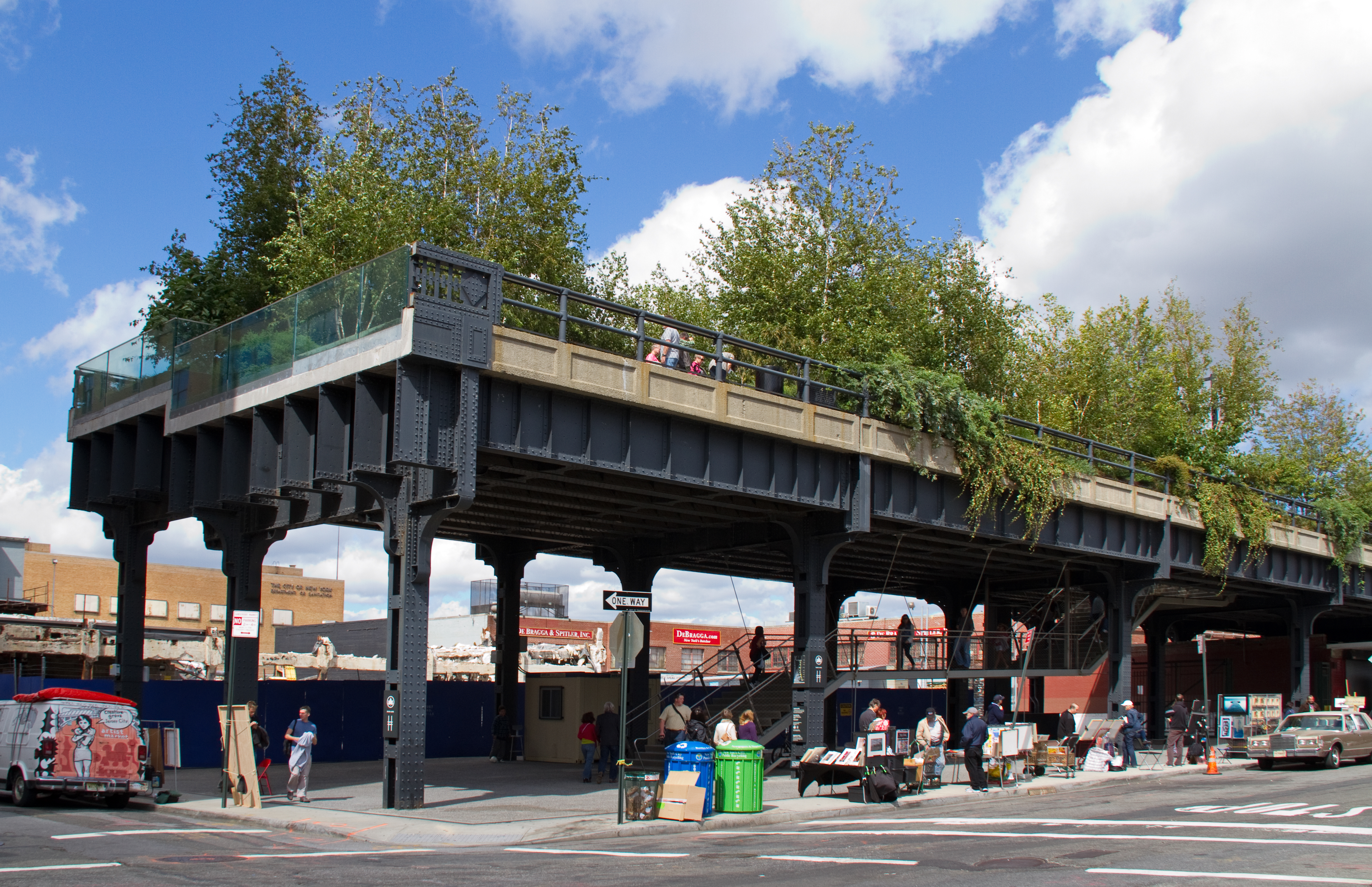 Walking the old High Line Railway